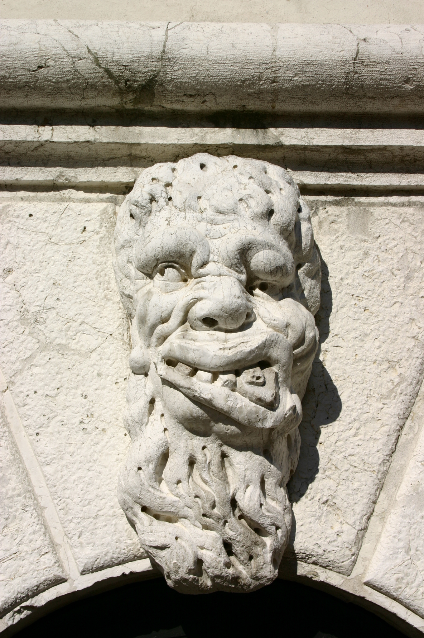 Venezia, a baroque grotesque mascaron from the bell tower of Santa Maria Formosa church. Picture by Giovanni Dall'Orto, July 2, 2006.